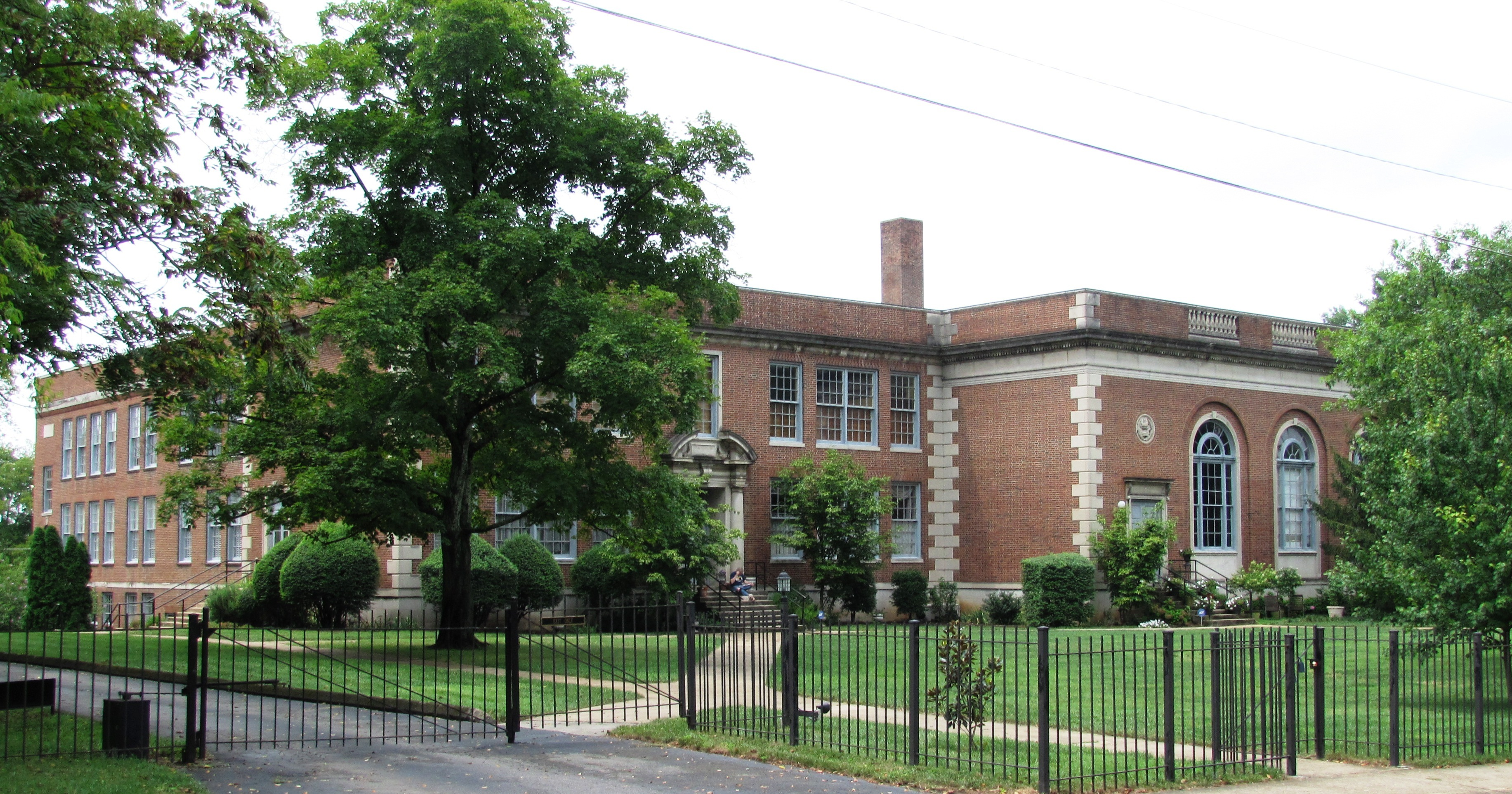 The Park City Junior High building (523 N. Bertrand), now Park Place condominiums, in the Parkridge neighborhood of Knoxville, Tennessee, USA.